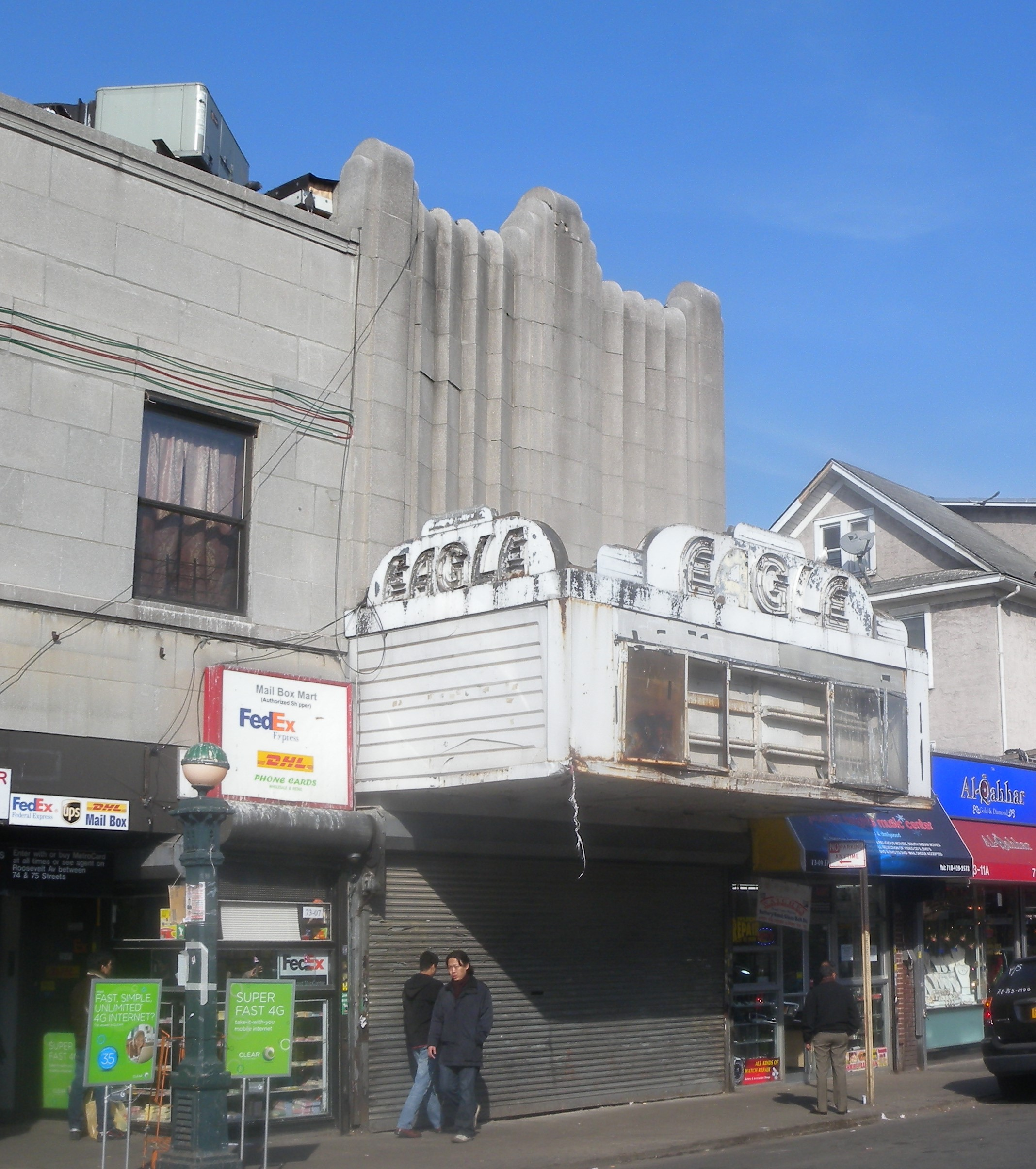 Looking northeast from Broadway, at Eagle Theater on a sunny day.